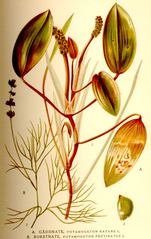 Potamogeton natans and Potamogeton pectinatus